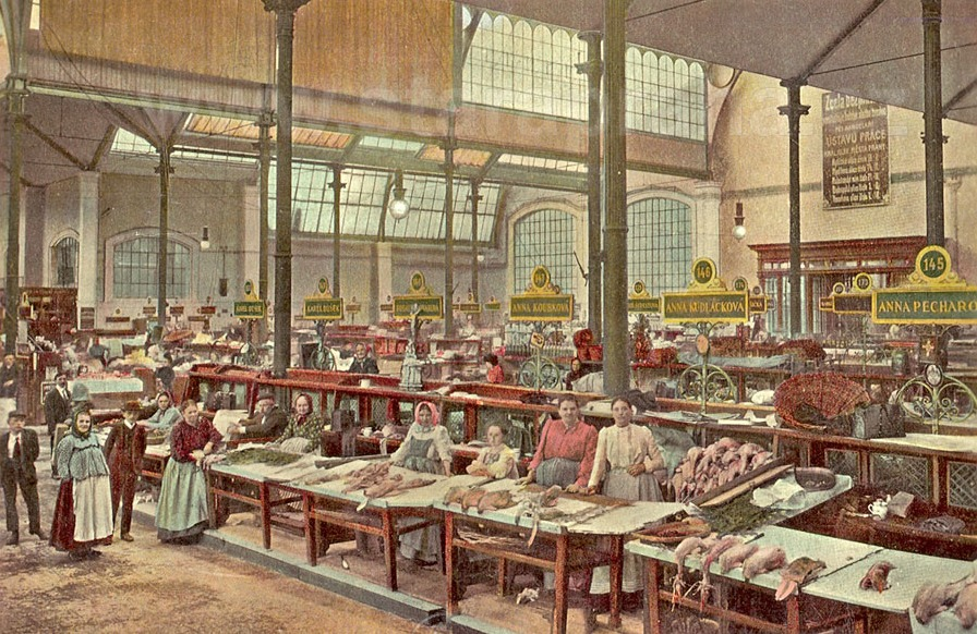 Old Town Market (Staroměstká tržnice) at the end of the 19th century. Prague's first covered market.